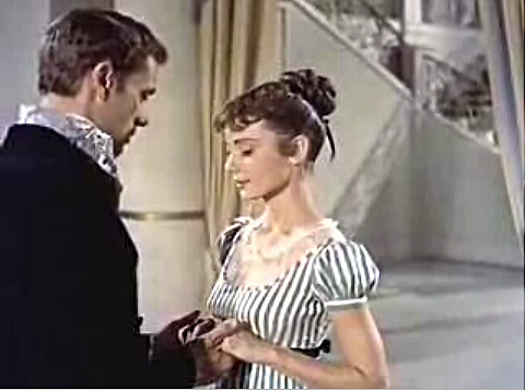 Cropped screenshot of Audrey Hepburn and Mel Ferrer from the trailer for the film War and Peace.